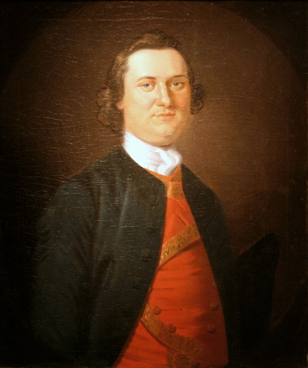 Oil on canvas painting of Lewis Morris; size without frame 76.2×63.5 cm.